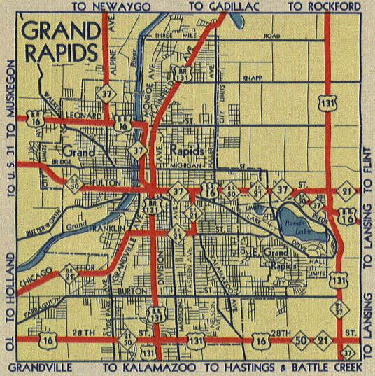 The Grand Rapids inset from the October 1, 1957, edition of Official Highway Map